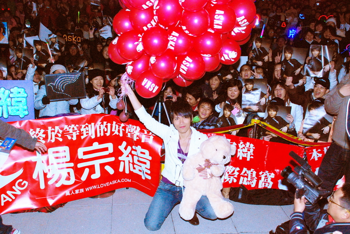 ASKA in 第一場預購握手會